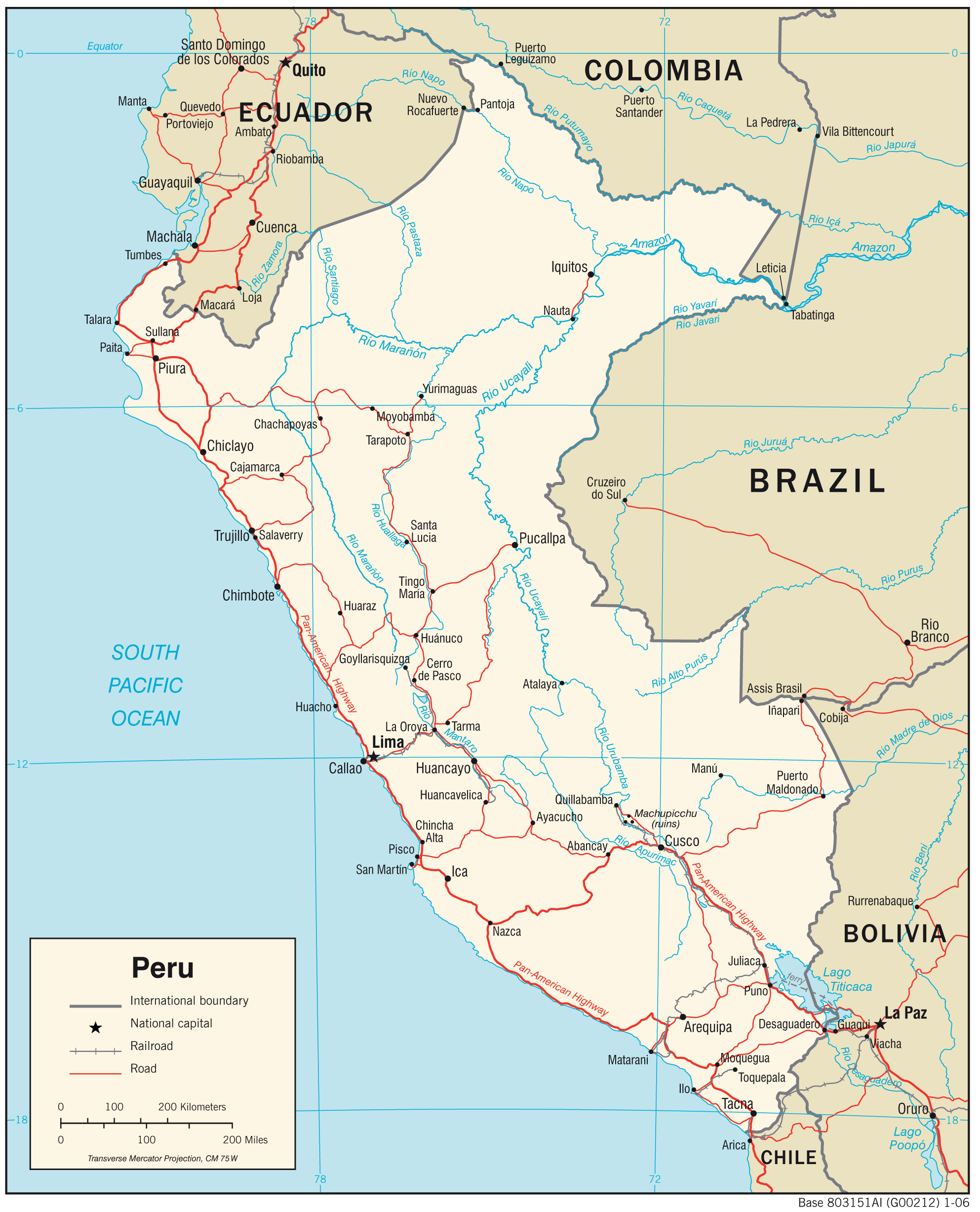 Transport system in Peru, 2006.